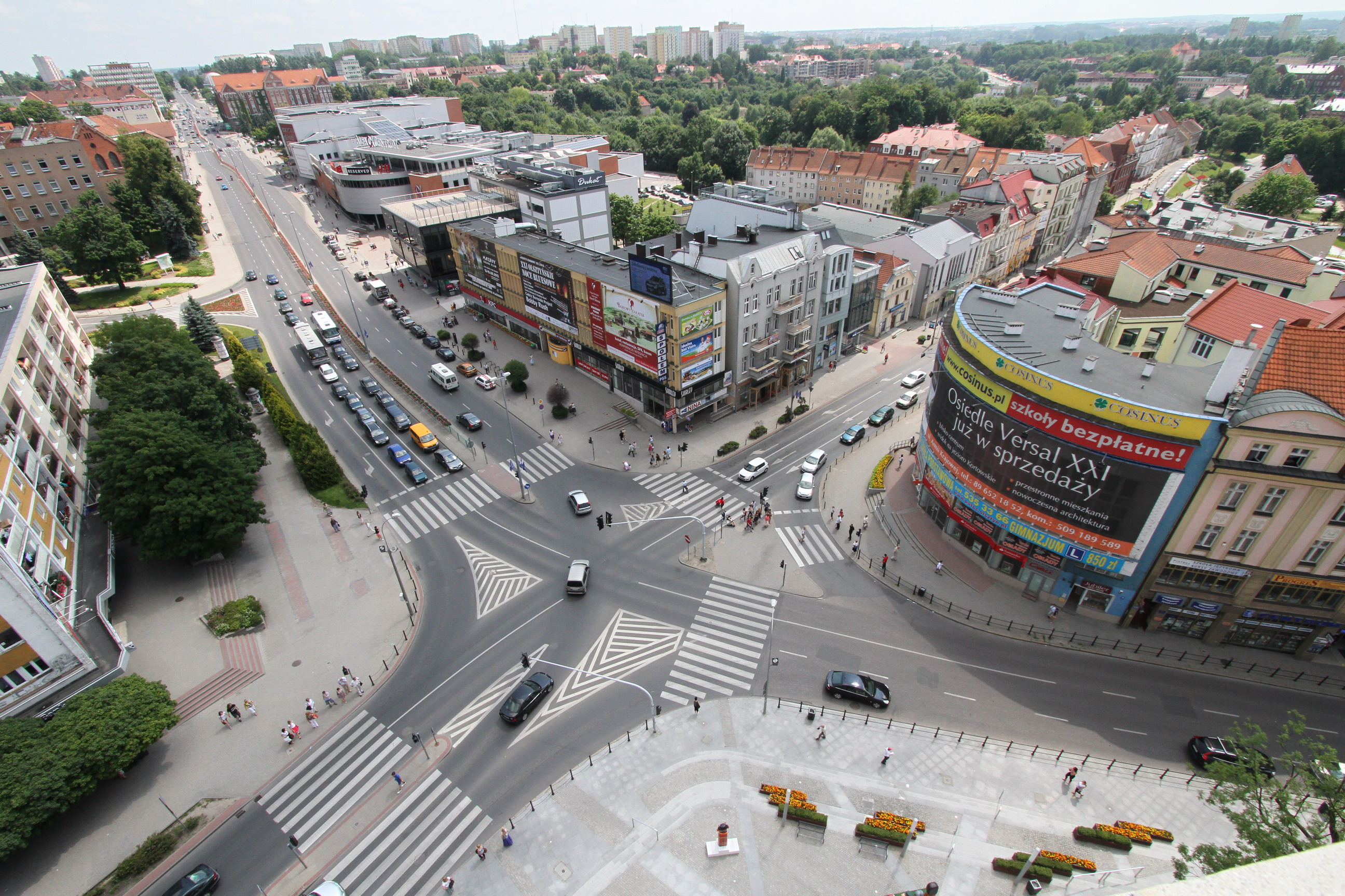 John Paul II Square in Olsztyn